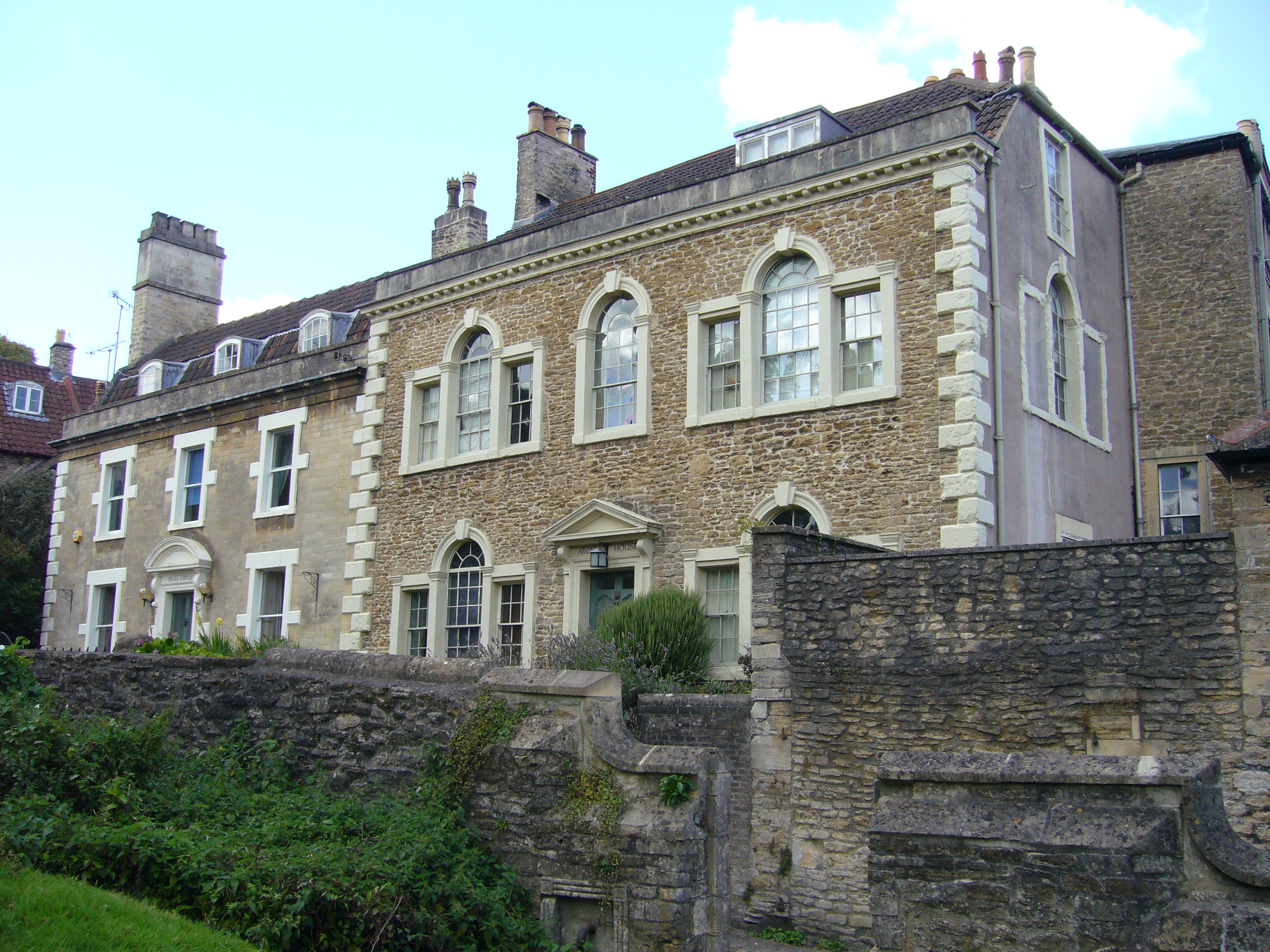 Gentle Street in Frome. Photographed in September 2007. Required attribution is: Photo by Tom Oates.